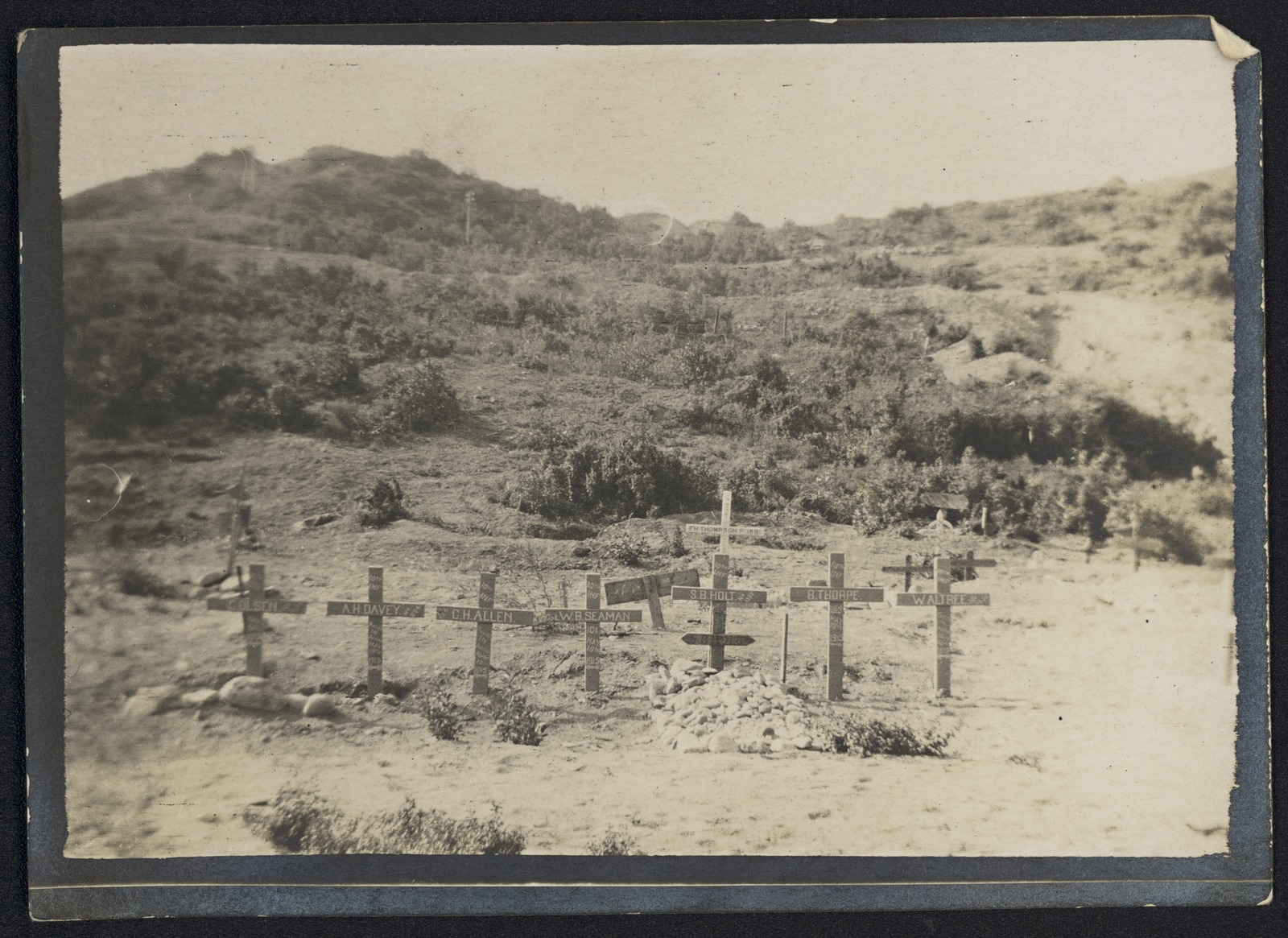 Shrapnel Valley Cemetery Gallipoli Turkey View shows a cemetery at Shrapnel Valley. Names on the wooden crosses all signed 10th INF., all killed in action May 19th 1915. L-R: C. Olson, A.H. Davey No. 894, C.H. Allen, Cpl. W.B. Seaman 101, S.B. Holt No. 133[5?]7, B. Thorpe 1184, W. Altree. Cross in background: F. H. Thompson P 138. Other crosses in background inscriptions unclear.